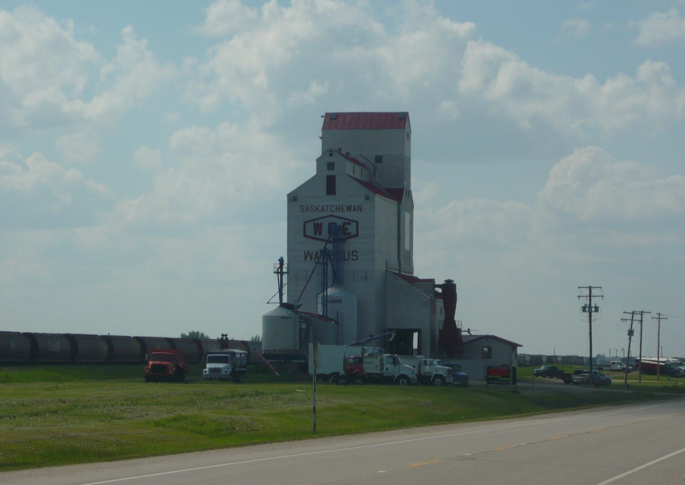 Grain elevator in Watrous, Saskatchewan, Canada, photographed from intersection of 1st Avenue and Manitou Avenue, looking northwestward.